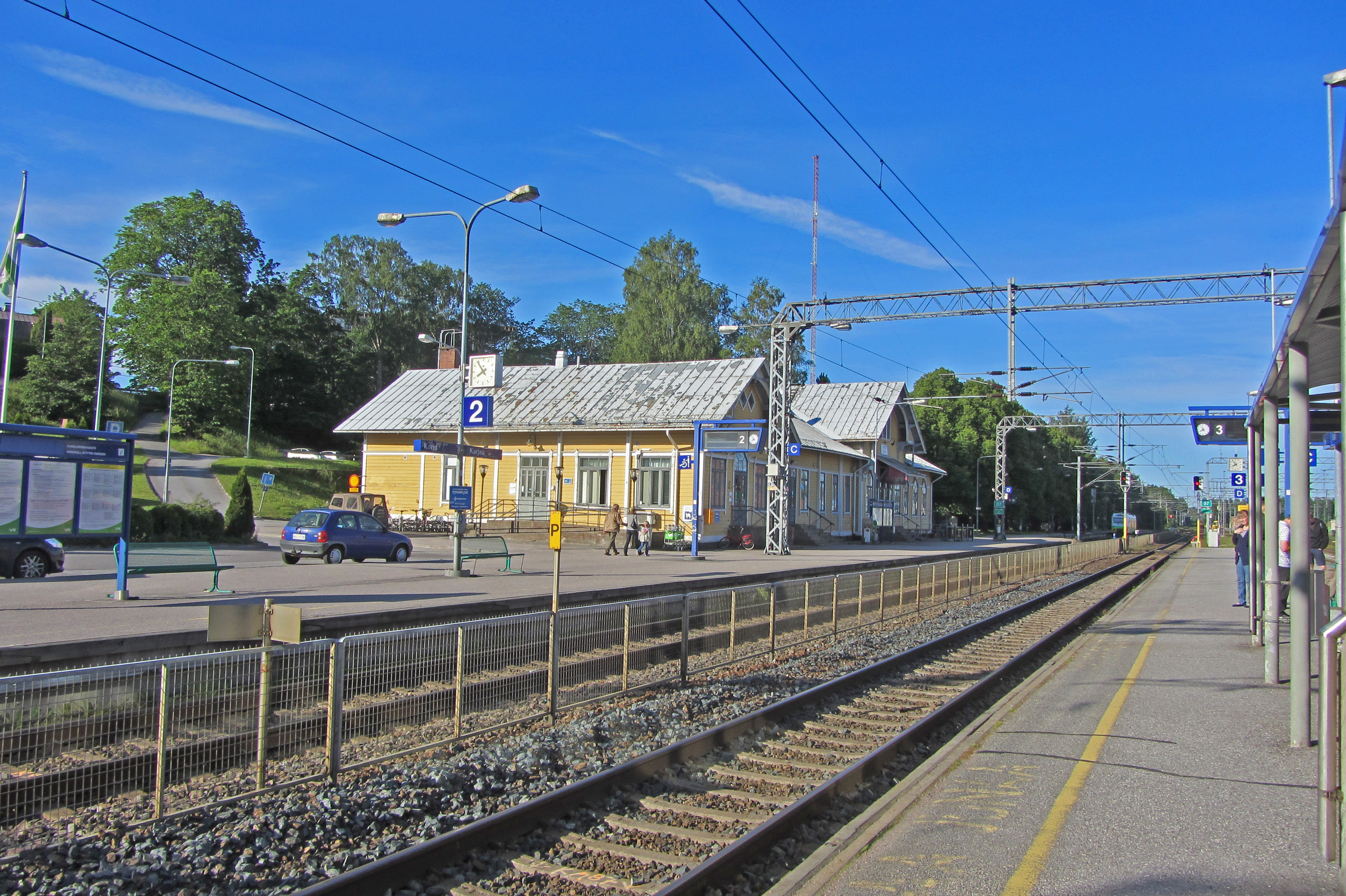 Karjaa Railway Station